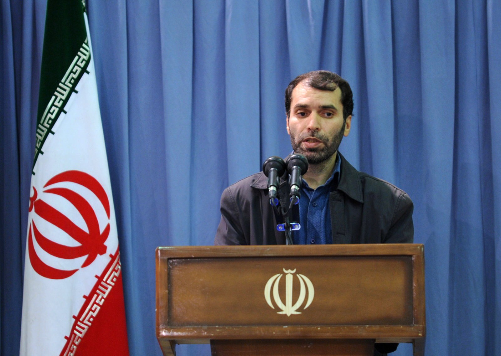 15,9,2009 - Masoud Dehnamaki - Meeting with Iran's supreme leader Grand Ayatollah Ali Khamenei as Artist active in the art of Holy defense (Anniversary of begining Iran-Iraq War)